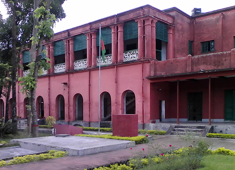 This is the main building of the Collectorate building. It is currently being used as a museum division of Barisal in Bangladesh. It was built in 1821. However, in 1994, the building has been declared ineligible to use, but since June 8, 2015 being used as a museum building. Inder-style mix of Western and Muslim architecture of the building has been made.The government of Bangladesh declared as a protected historic building in 2004 .